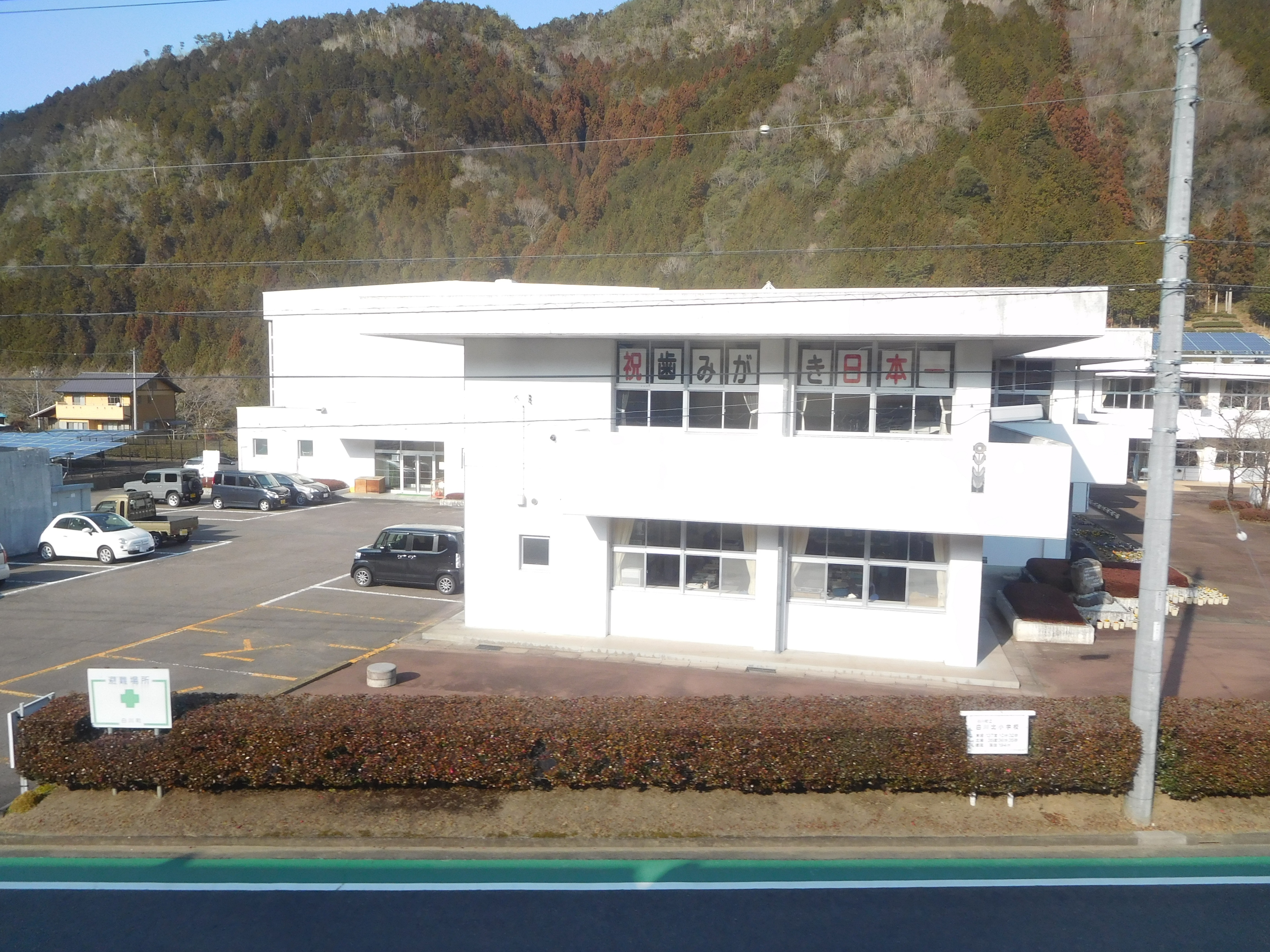 This is Shirakawakita Elementary School in Shirakawa town, Gifu, Japan. This picture was taken from within the JR Takayama Main Line train.